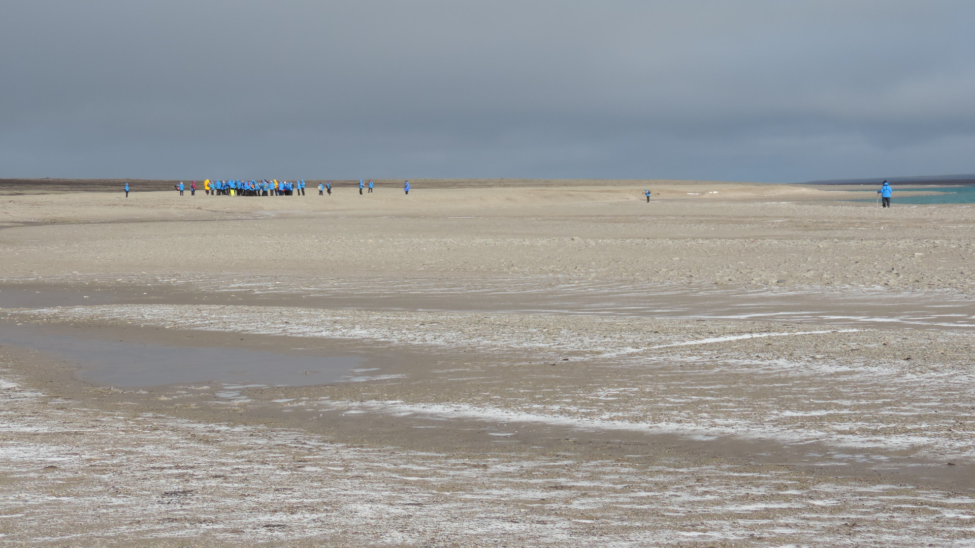 Adventure Canada tourists exploring Jenny Lind Island, 2019